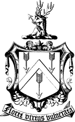 19th century engraving of arms of Floyer family, originally of Floyer Hayes, parish of St Thomas, Exeter, Devon: Sable, a chevron between three arrows points downward argent; crest: A stag's head erased or holding in the mouth an arrow argent. (*Vivian, Lt.Col. J.L., (Ed.) The Visitation of the County of Devon: Comprising the Heralds' Visitations of 1531, 1564 & 1620, Exeter, 1895, p.344) Motto: Floret Virtus Vulnerata ("Virtue flourishes wounded")